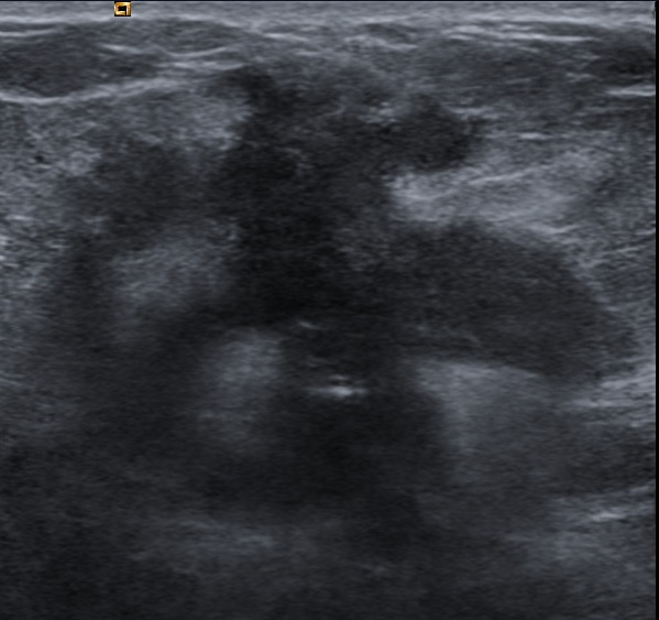 Hyperechogenic desmoplastic reaction seen at boundary of tumor. BIRADS-5 US